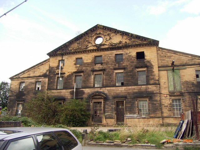 Sad end to a Stately Home. This is Milnsbridge House and was occupied by Joseph Radcliffe in 1795. At the time of the Luddite Uprising he was the local magistrate and played a major part in quelling the uprising, for which he received a Baronetcy; the House is now occupied in part by an engineering firm.